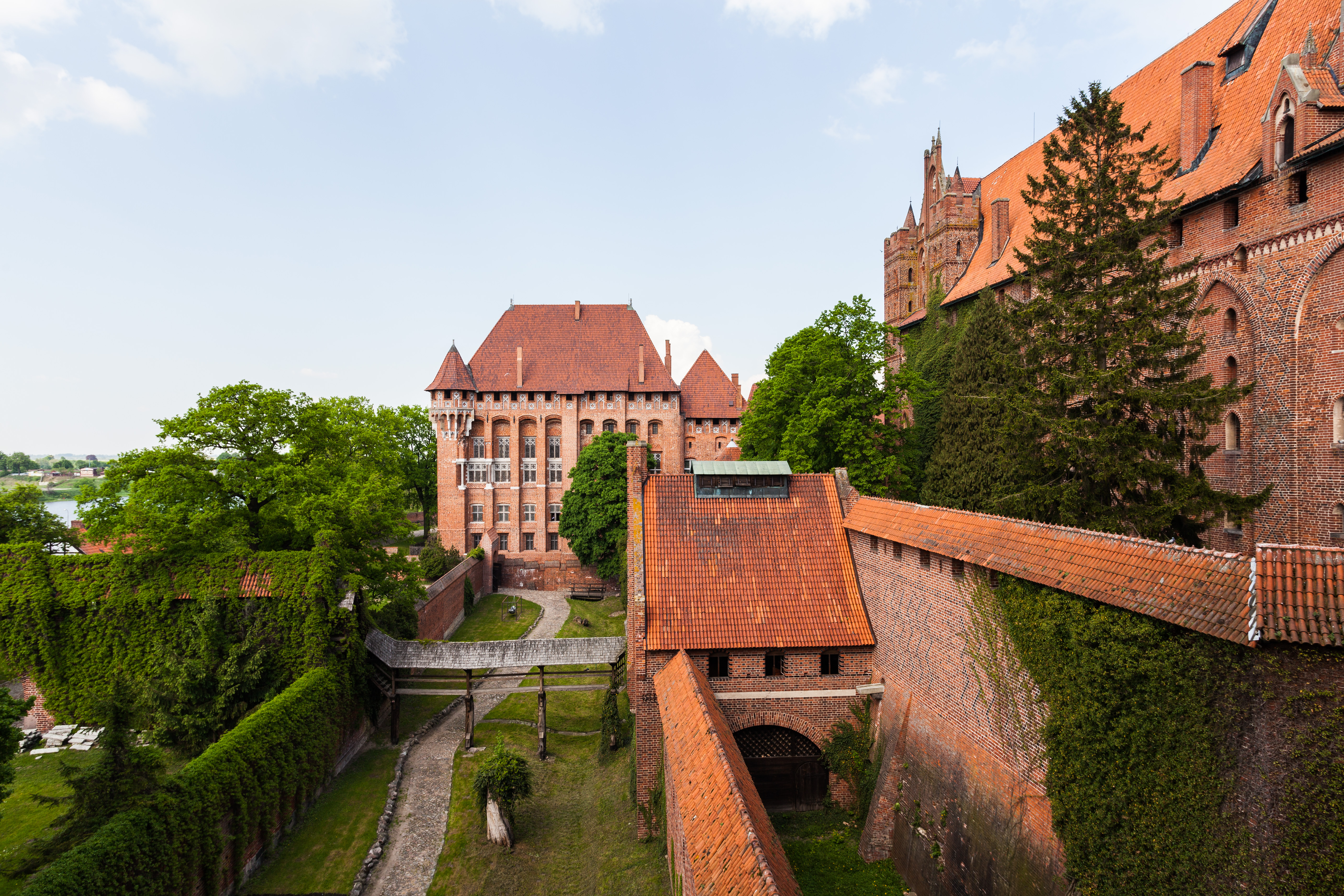 Malbork Castle, Poland